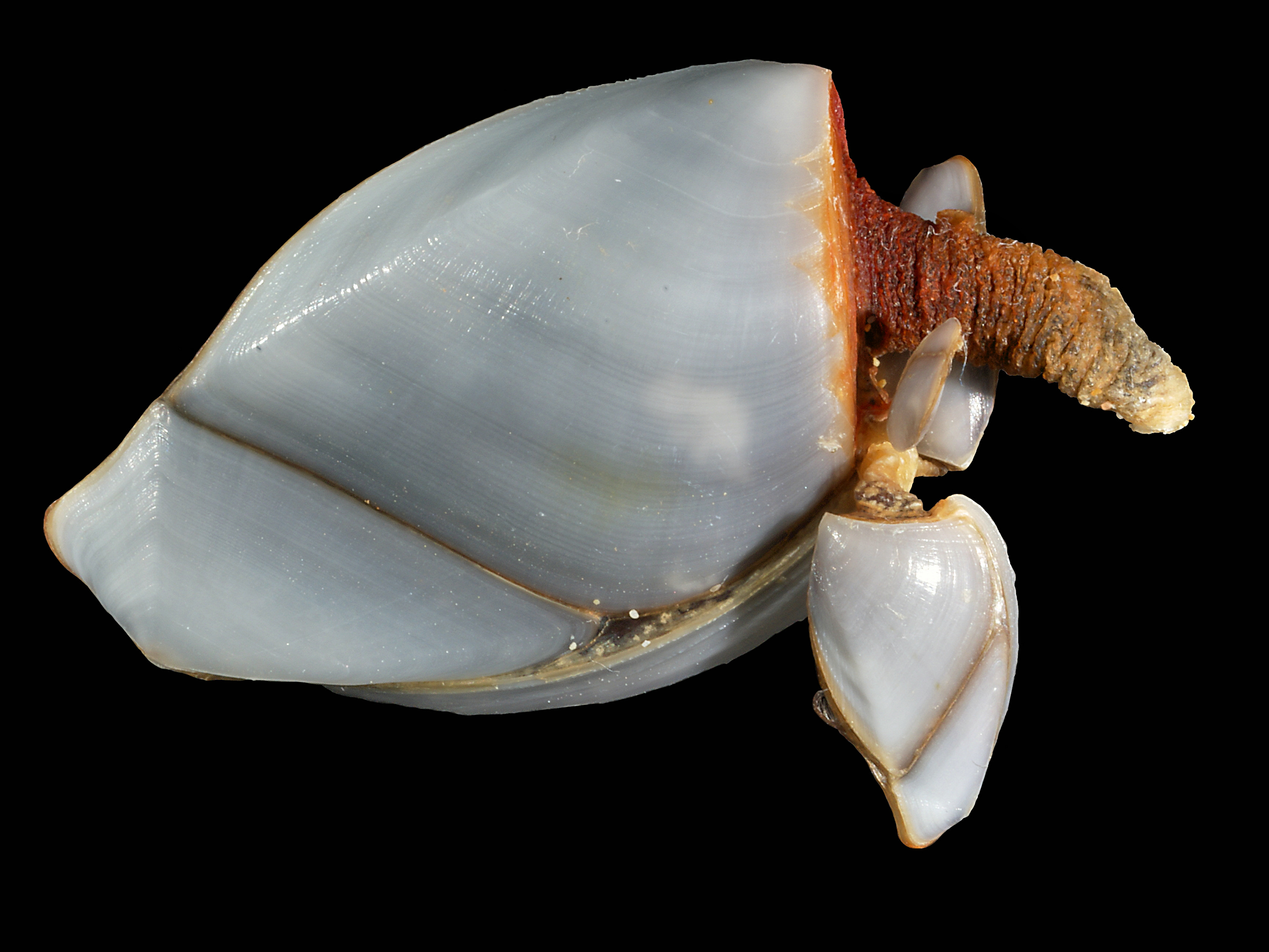 Goose barnacle washed upon the shore close to Iraklion, Crete.